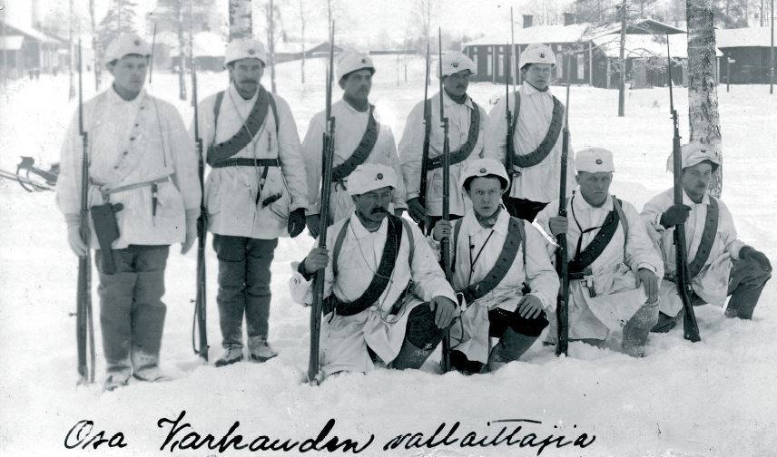 White Guards of the 1918 Finnish Civil War after the Battle of Varkaus, 19-22 February.